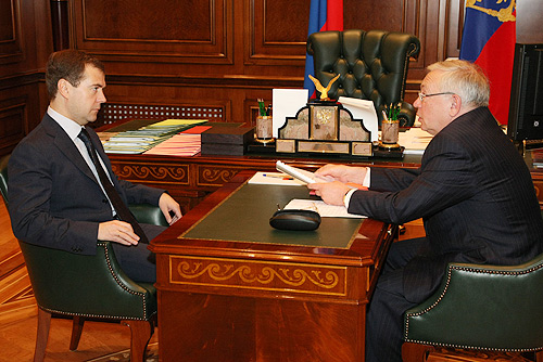 GORKI, MOSCOW REGION. With Russian Human Rights Ombudsman Vladimir Lukin.